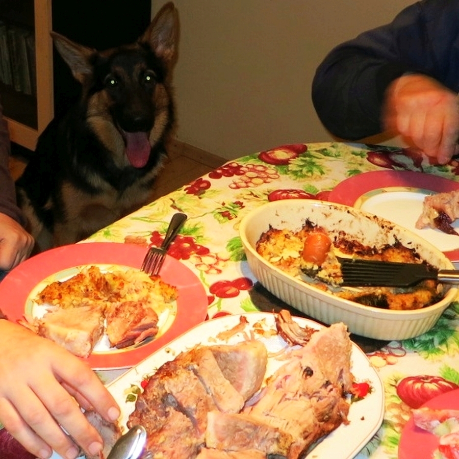 New Year’s Eve celebration in Estonia – a lot of meat